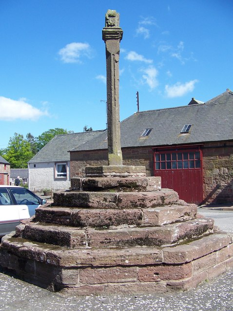 Mercat Cross, Fettercairn The mercat cross was erected on its present site in 1670 and is a schedule monument.